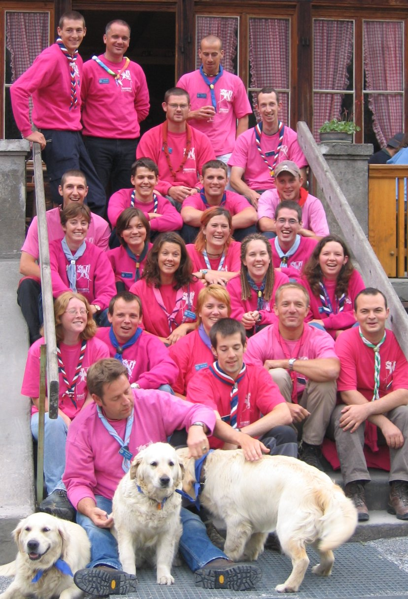 Staff at Kandersteg International Scout Centre